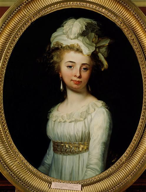 Marie-Françoise Henriette de Banastre, duchesse de Bouillon by Jean Laurent Mosnier